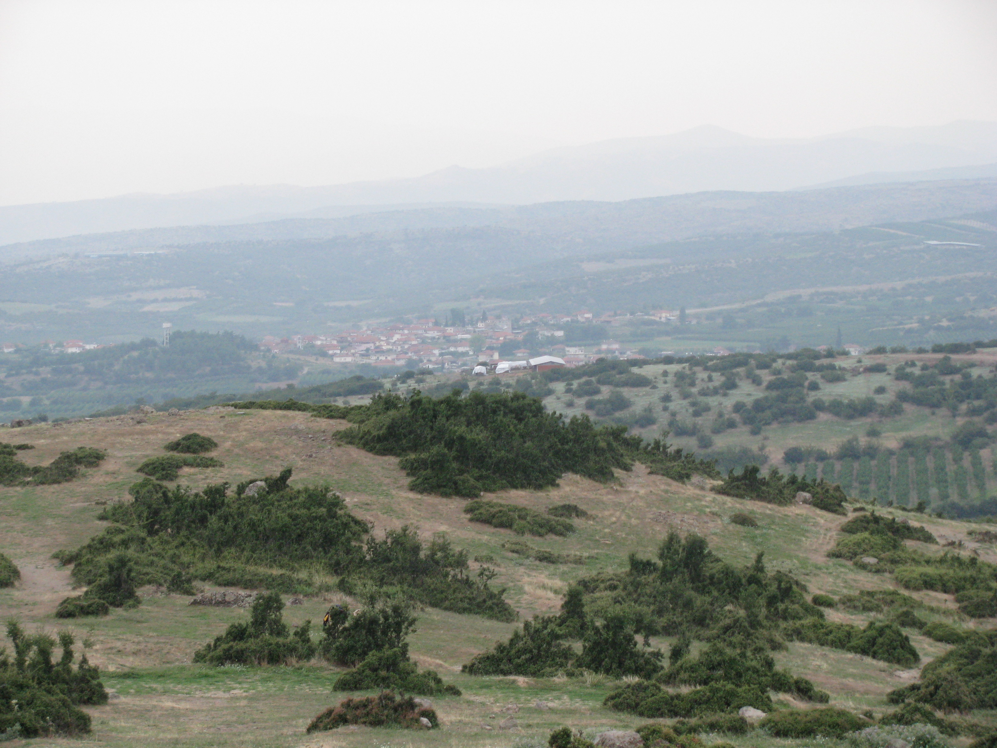 Village of Mandalo/Mandalevo, Aegean Macedonia, Greece